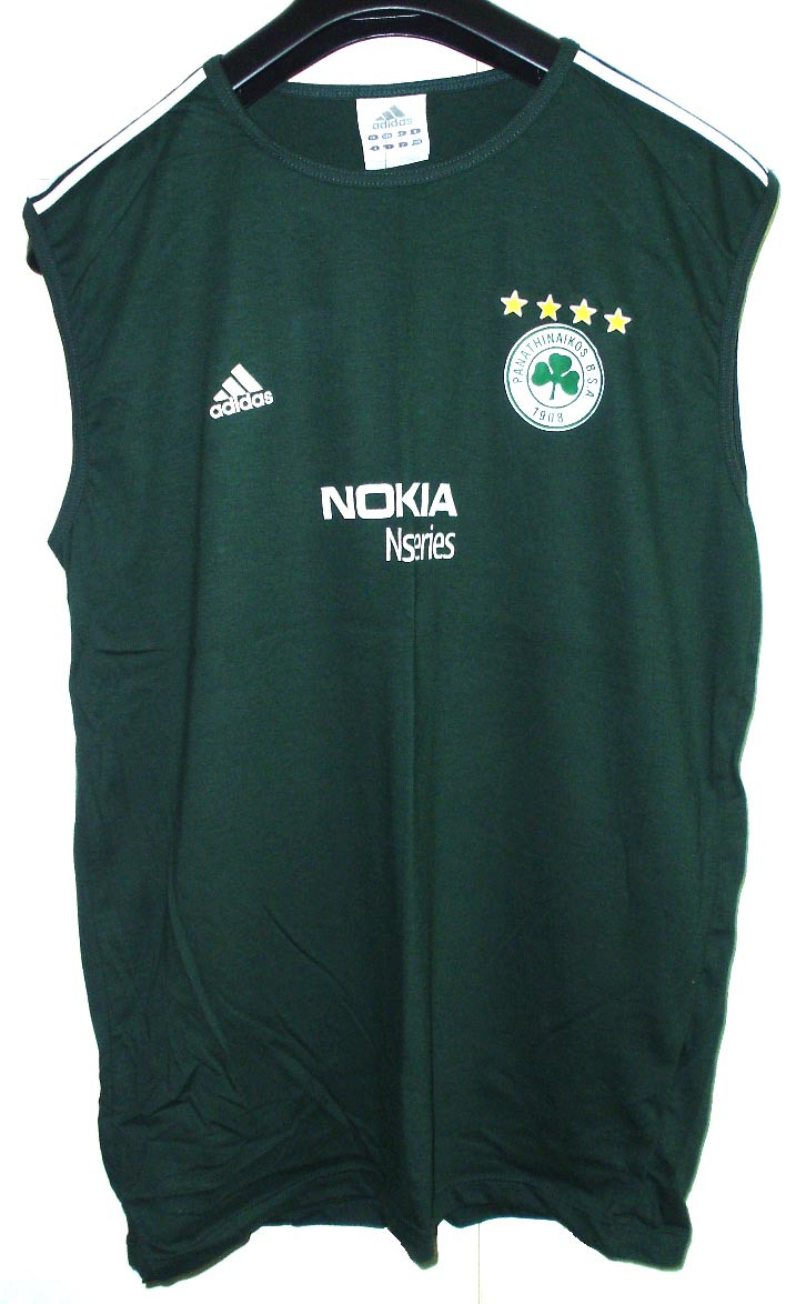 My PAO BC shirt